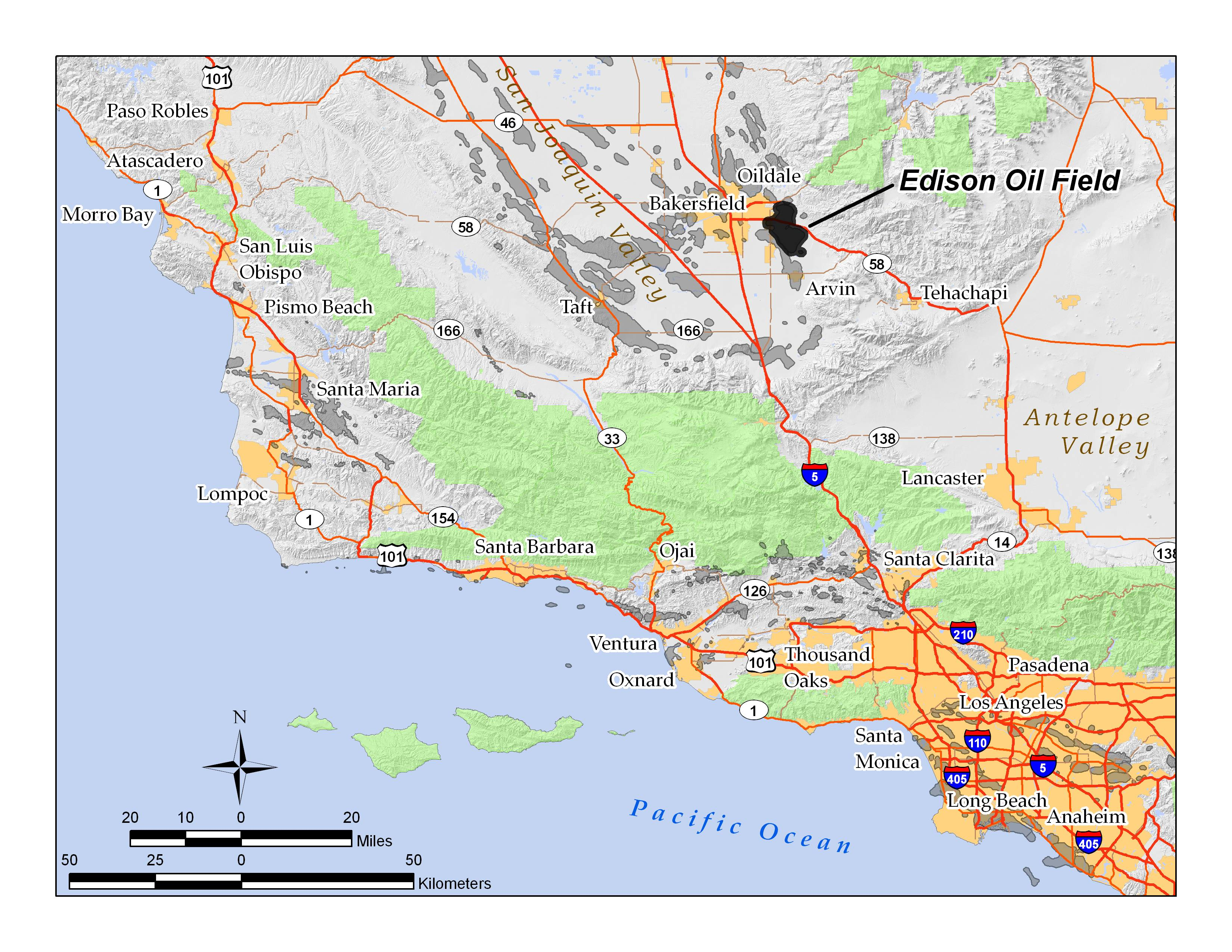 Location of Edison Oil Field in the San Joaquin Valley near Bakersfield; by self in ArcGIS 9.3; basemap layers in public domain; GFDL/equiv